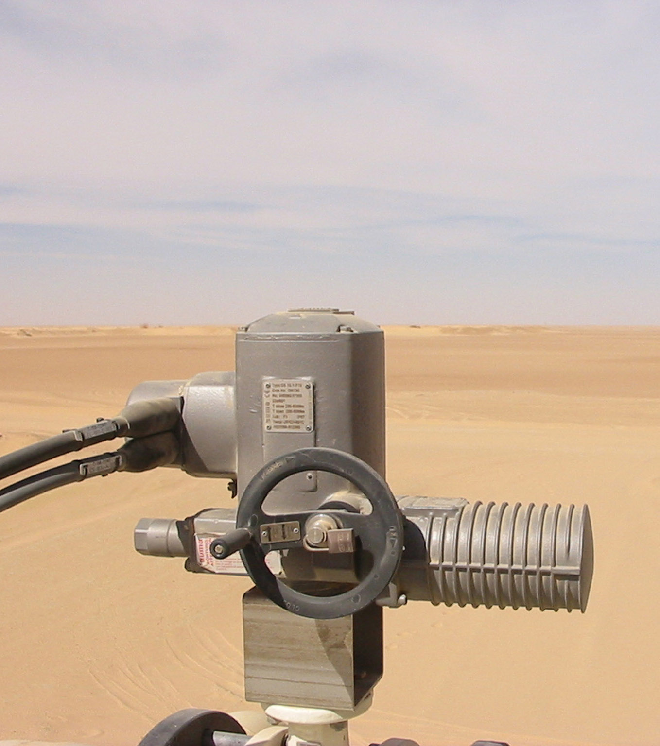 Actuator in the Sahara